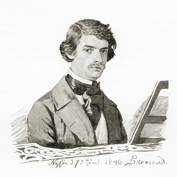 Conductor Paolo Sperati (1821–84). Drawing by P. C. Skovgaard (1817–75). Paolo Sperati (1821–84) was with the Hofteatret in Copenhagen (Denmark) from 1841 to 1850, when he moved on to Norway.